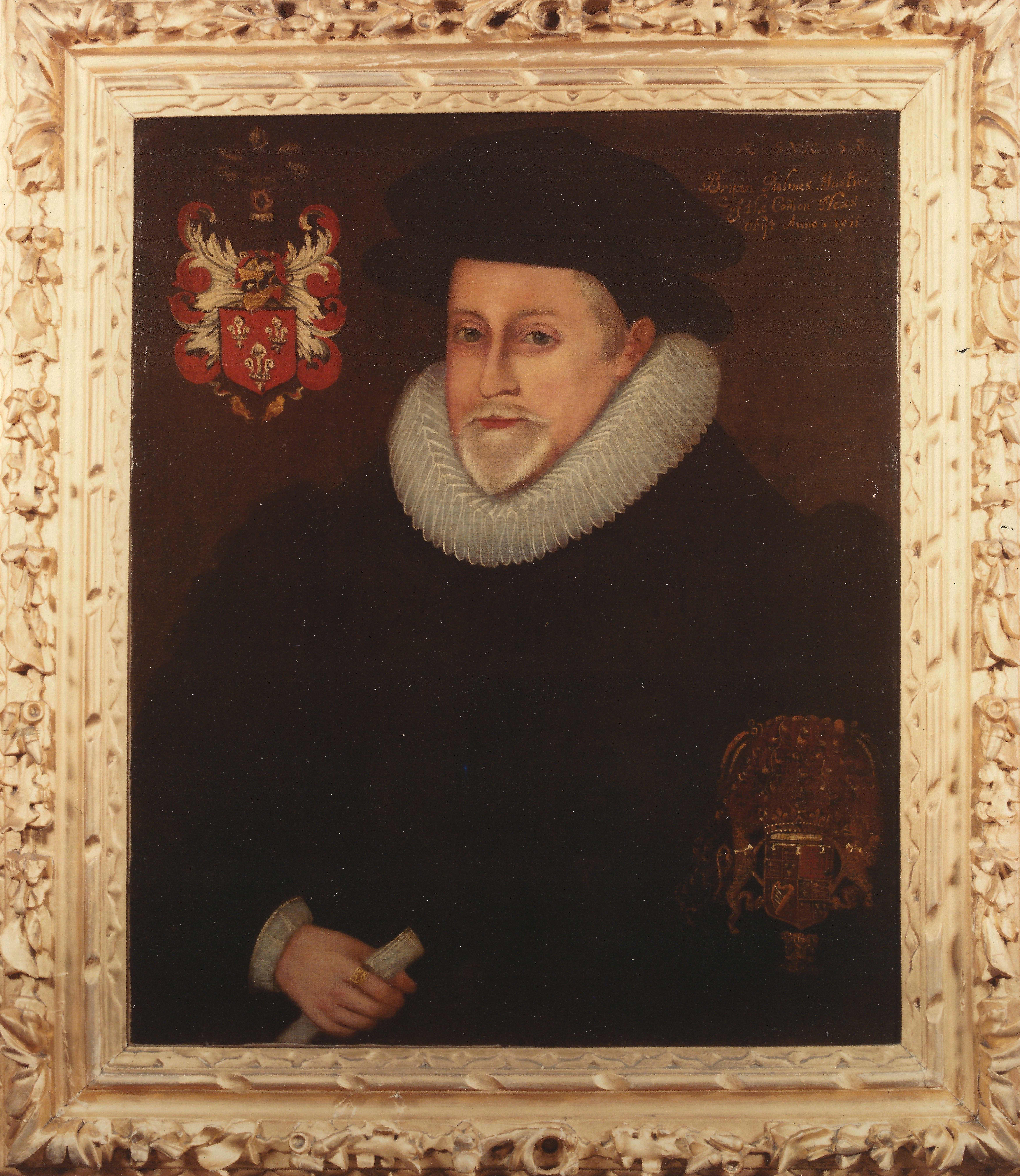 Bryan Palmes, Member of Parliament for York and Justice of the Assize